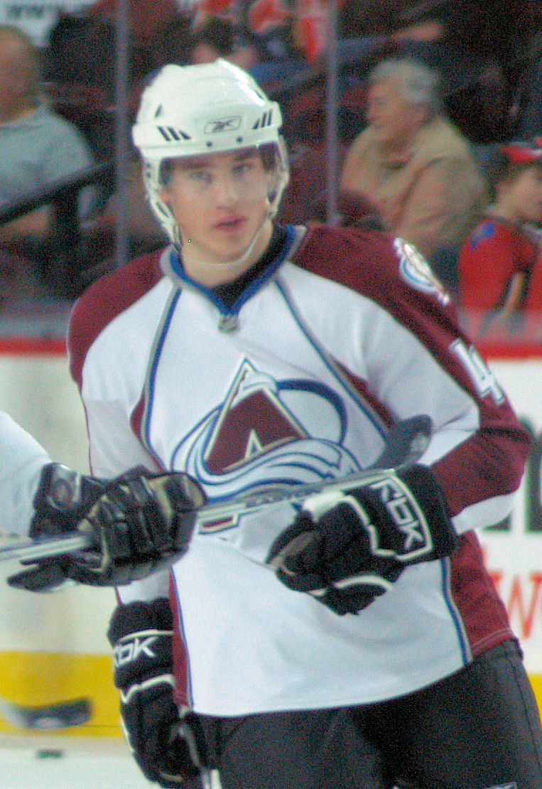 Kyle Cumiskey warming up before a game in Calgary, Alberta